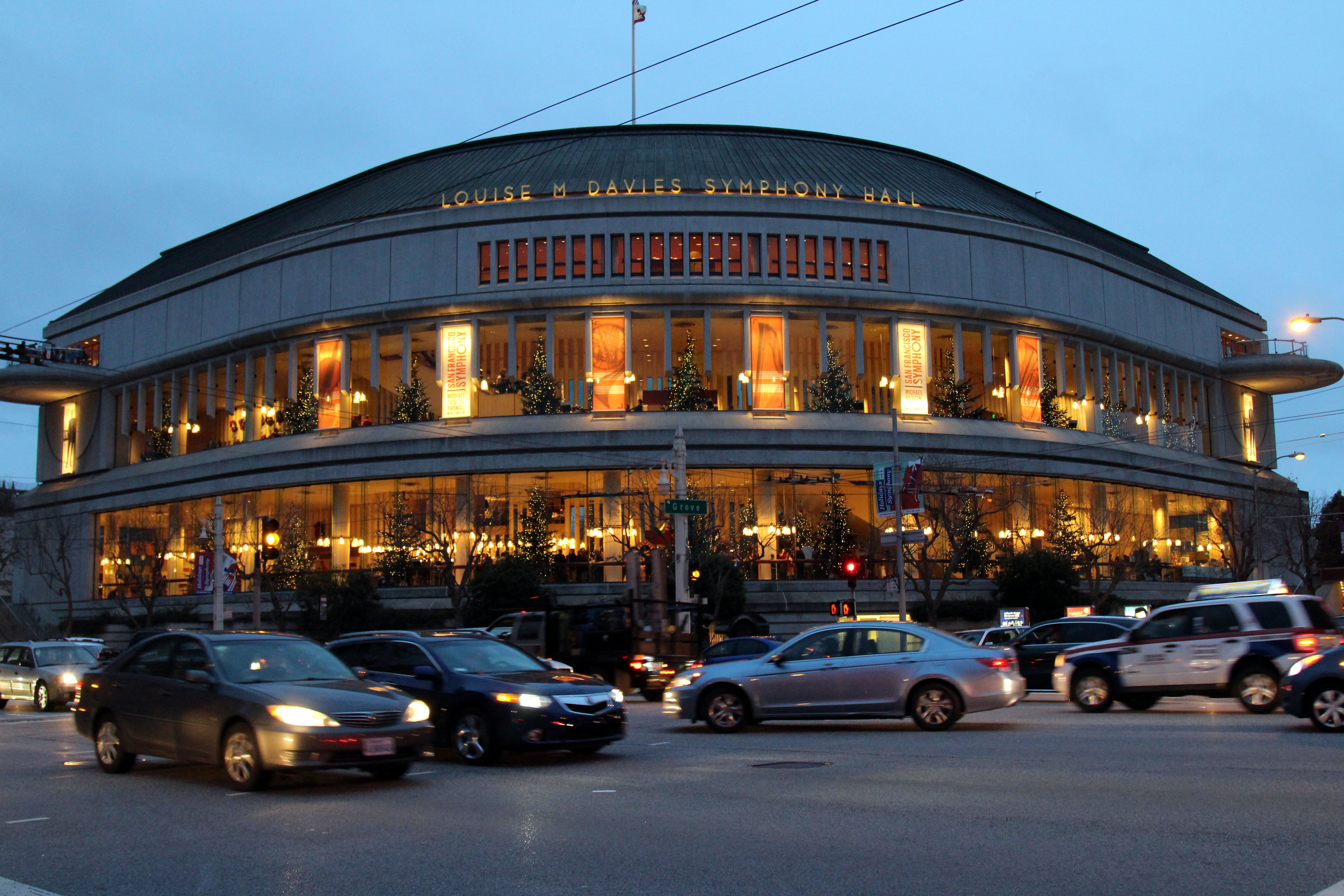 Louise M. Davies Symphony Hall at night